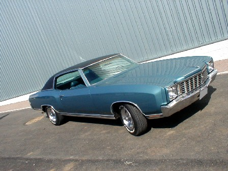 A 1972 Chevrolet Monte Carlo with vinyl hardtop.